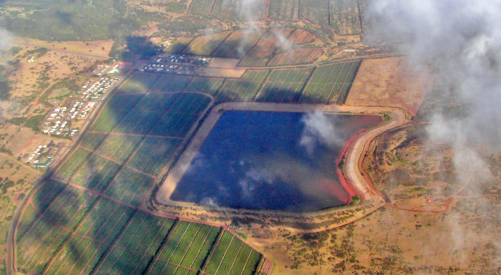 An oblique aerial photo showing the village of Kualapuu, coffee fields with Norfolk pine windbreaks, the 1.4 billion gallon Kualapuu Reservoir, and the cinder cone Kualapuu.